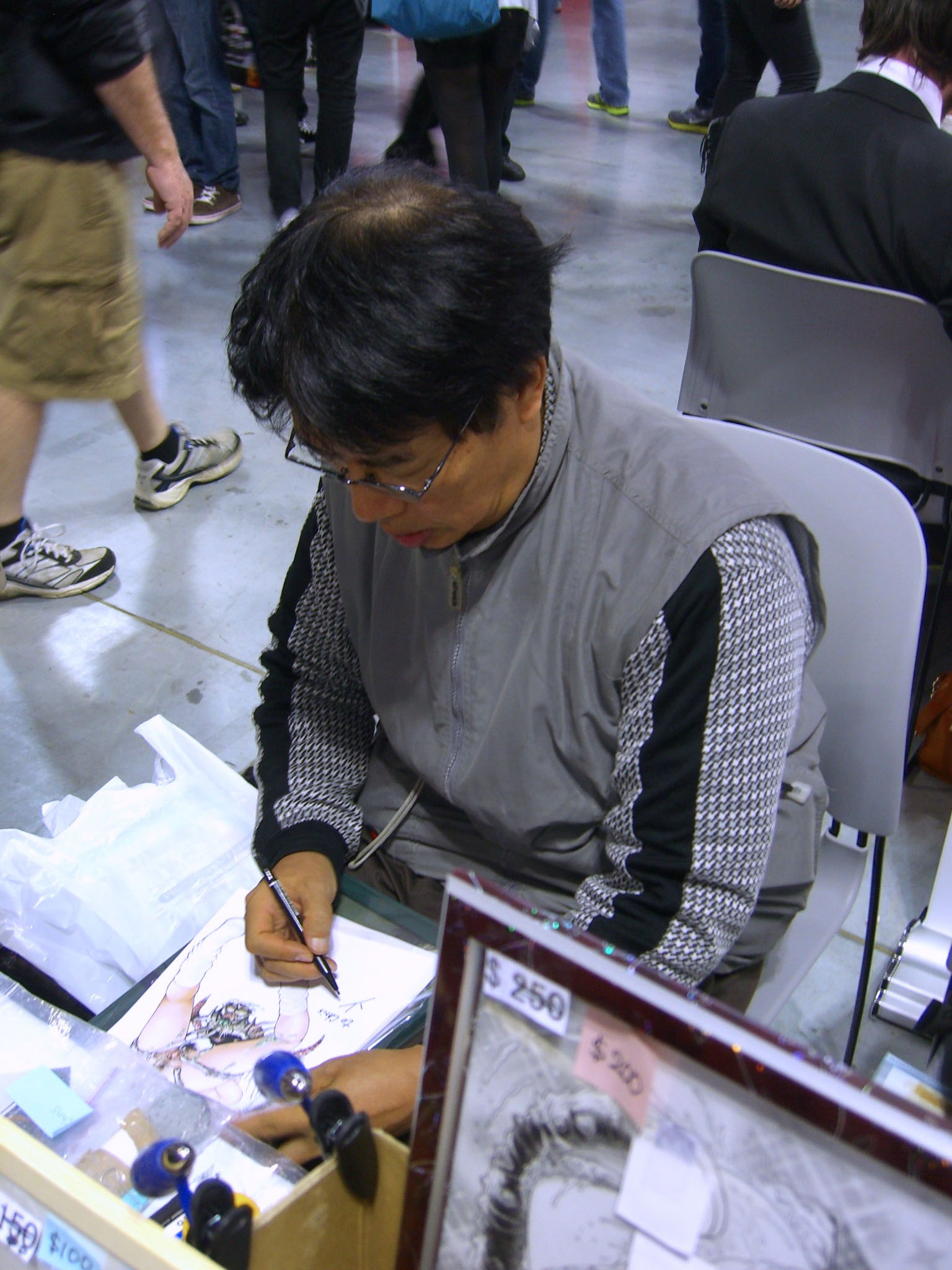 Comics creator Toshio Maeda on Day 3 of the 2012 New York Comic Con, Saturday October 13, 2012 at the Jacob K. Javits Convention Center in Manhattan. This photo was created by Luigi Novi. It is not in the public domain, and use of this file outside of the licensing terms is a copyright violation.